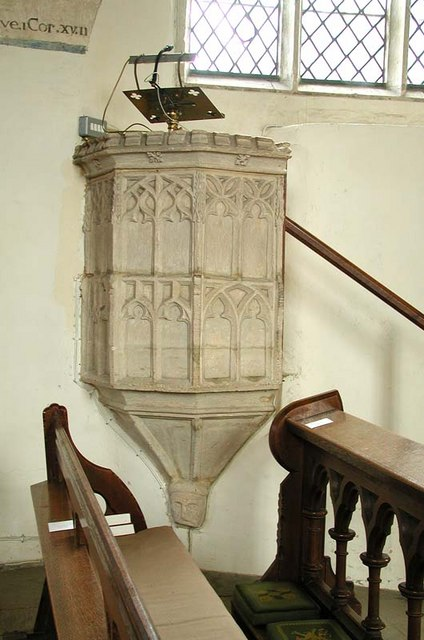 St Laurence, Combe, Oxon - Pulpit